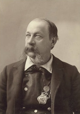 Bust portrait of George M. Ottinger Fire Chief Volunteers 1876-1883